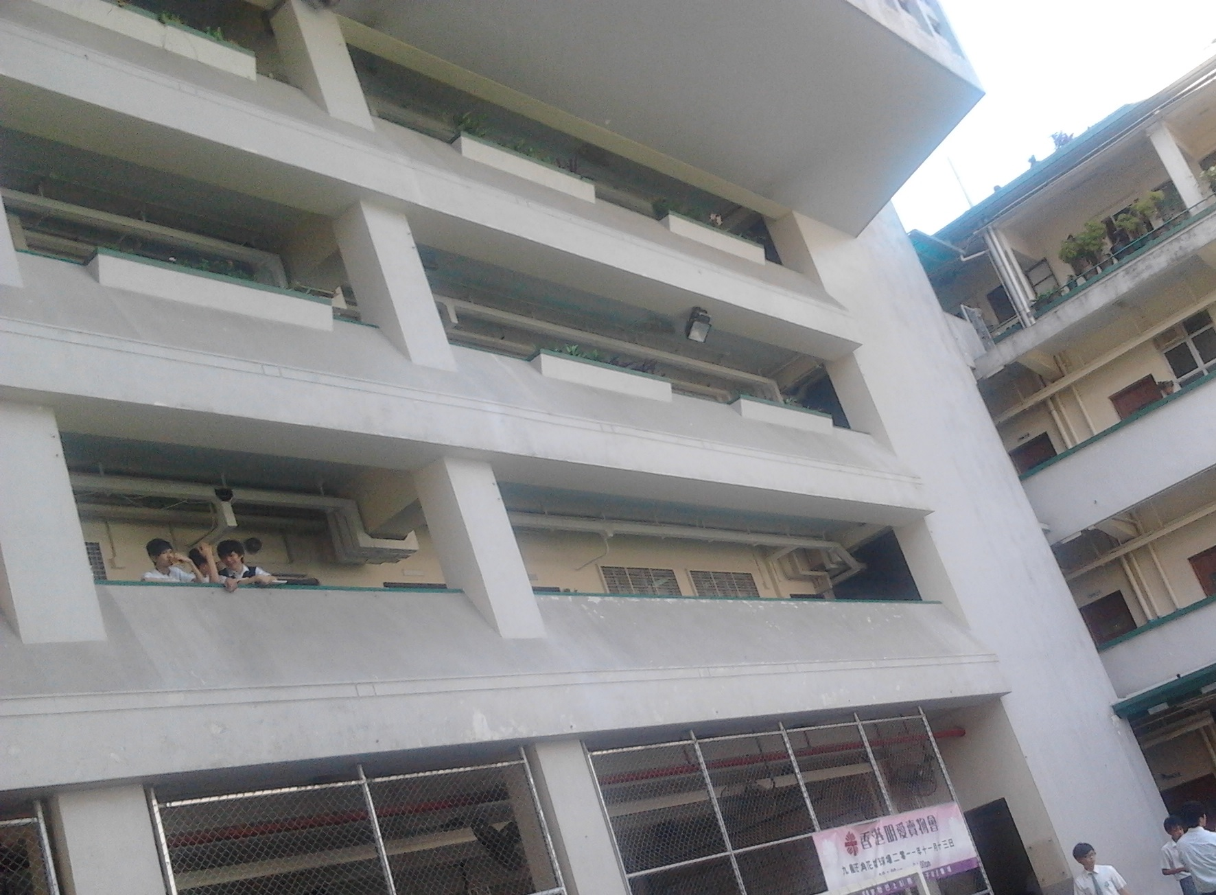 SFXC